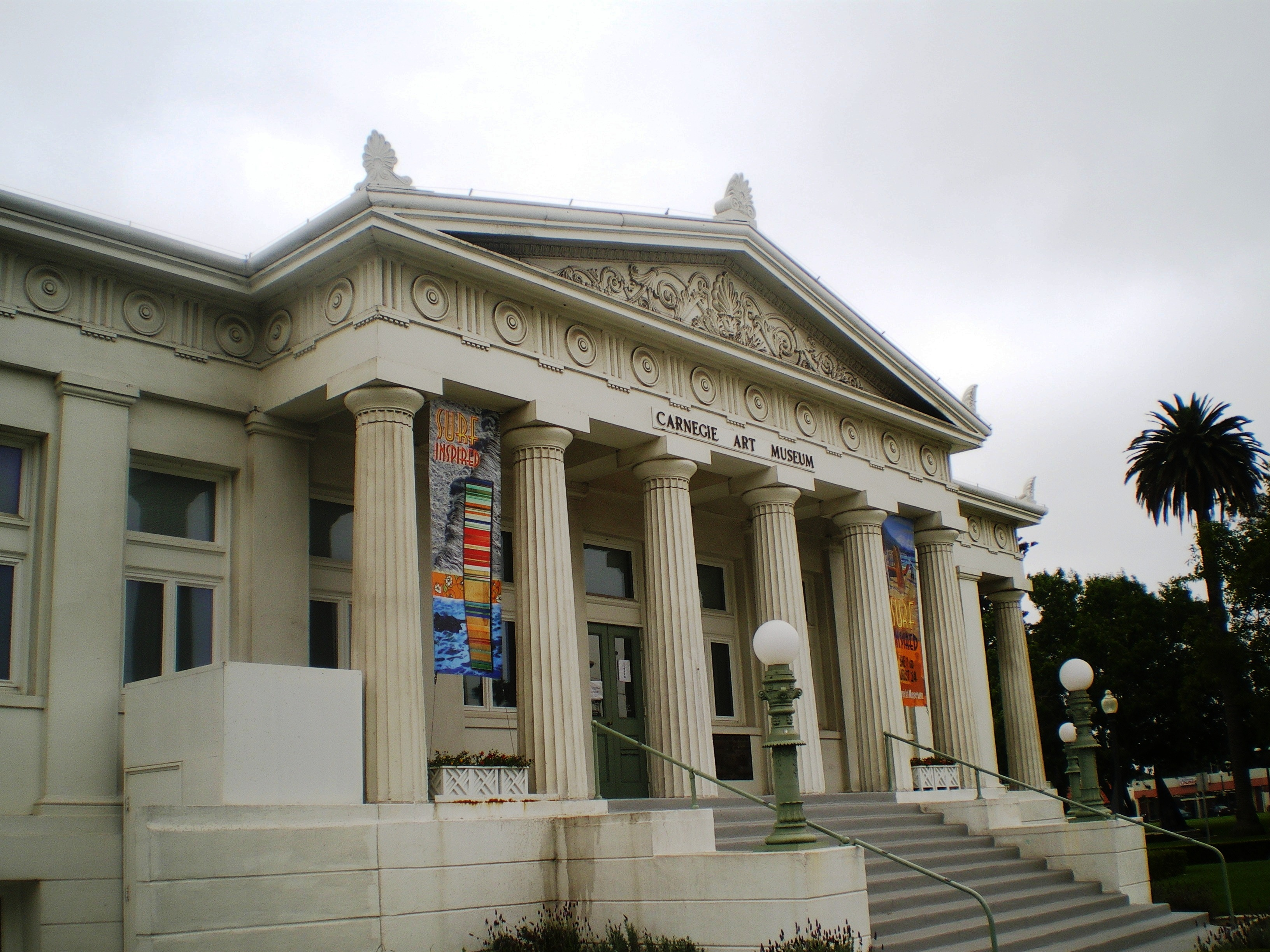 Carnegie Art Museum, 424 S. C St., Oxnard, California